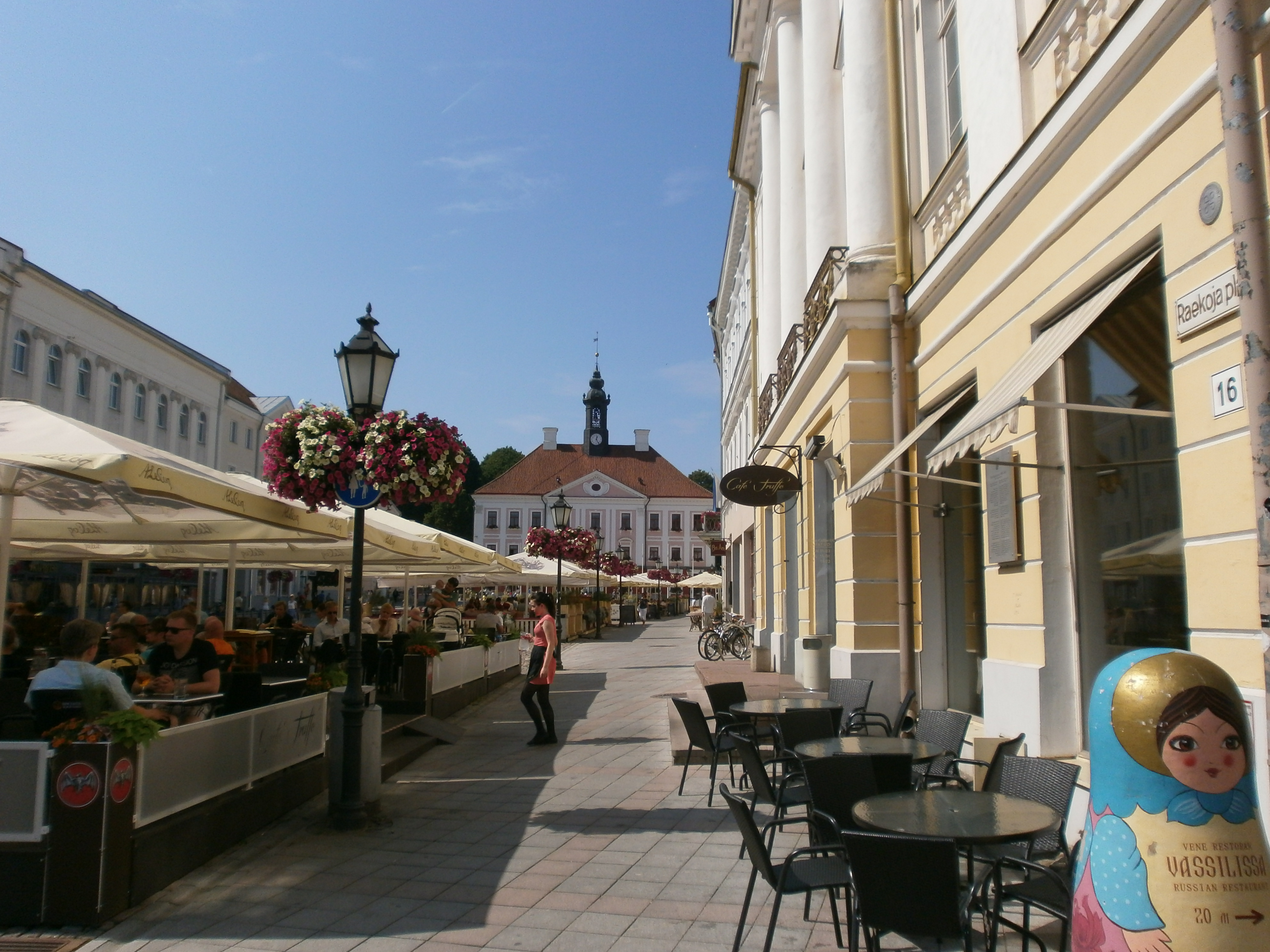 Tartu